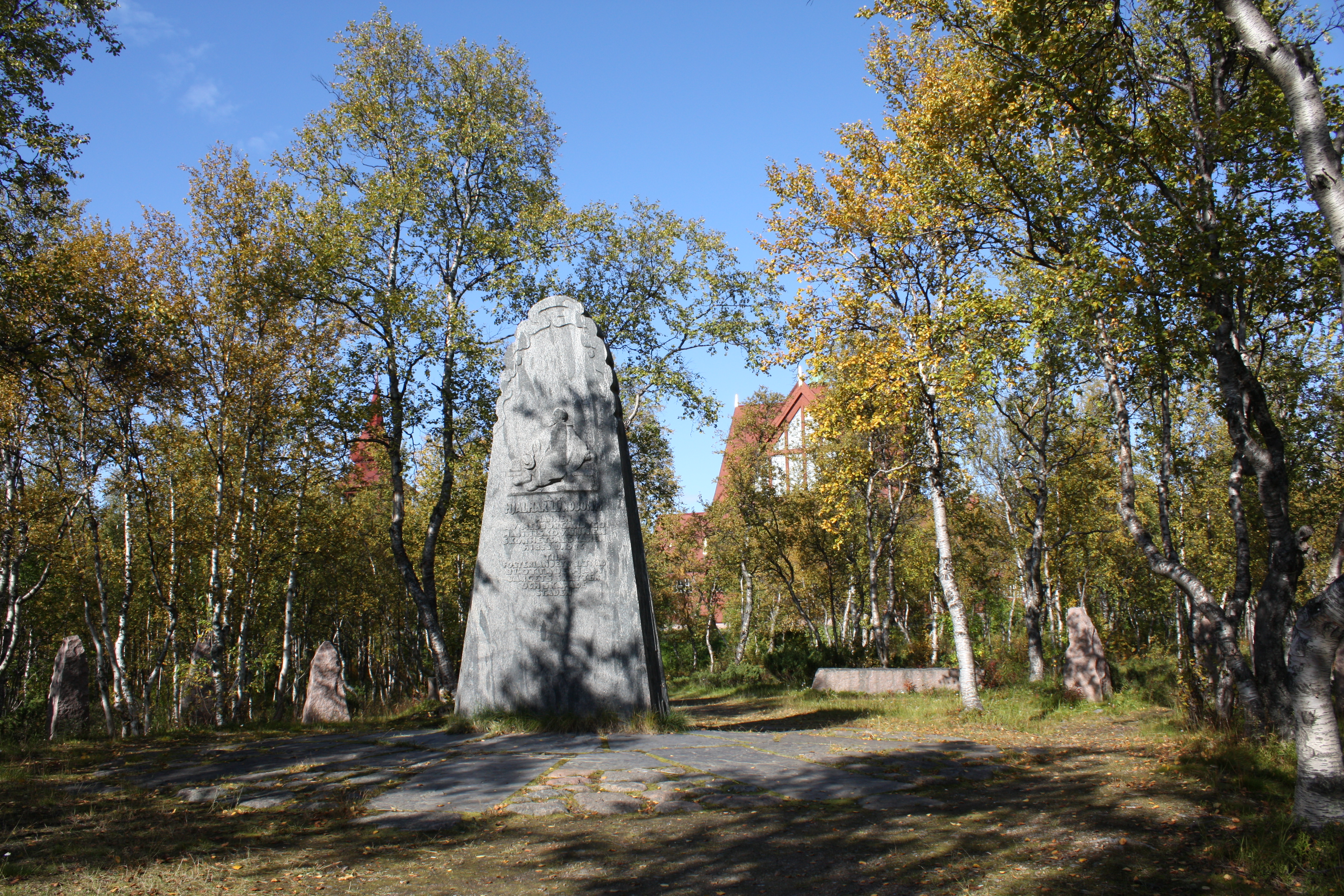 Hjalmar Lundbohm's grave near the church of Kiruna.